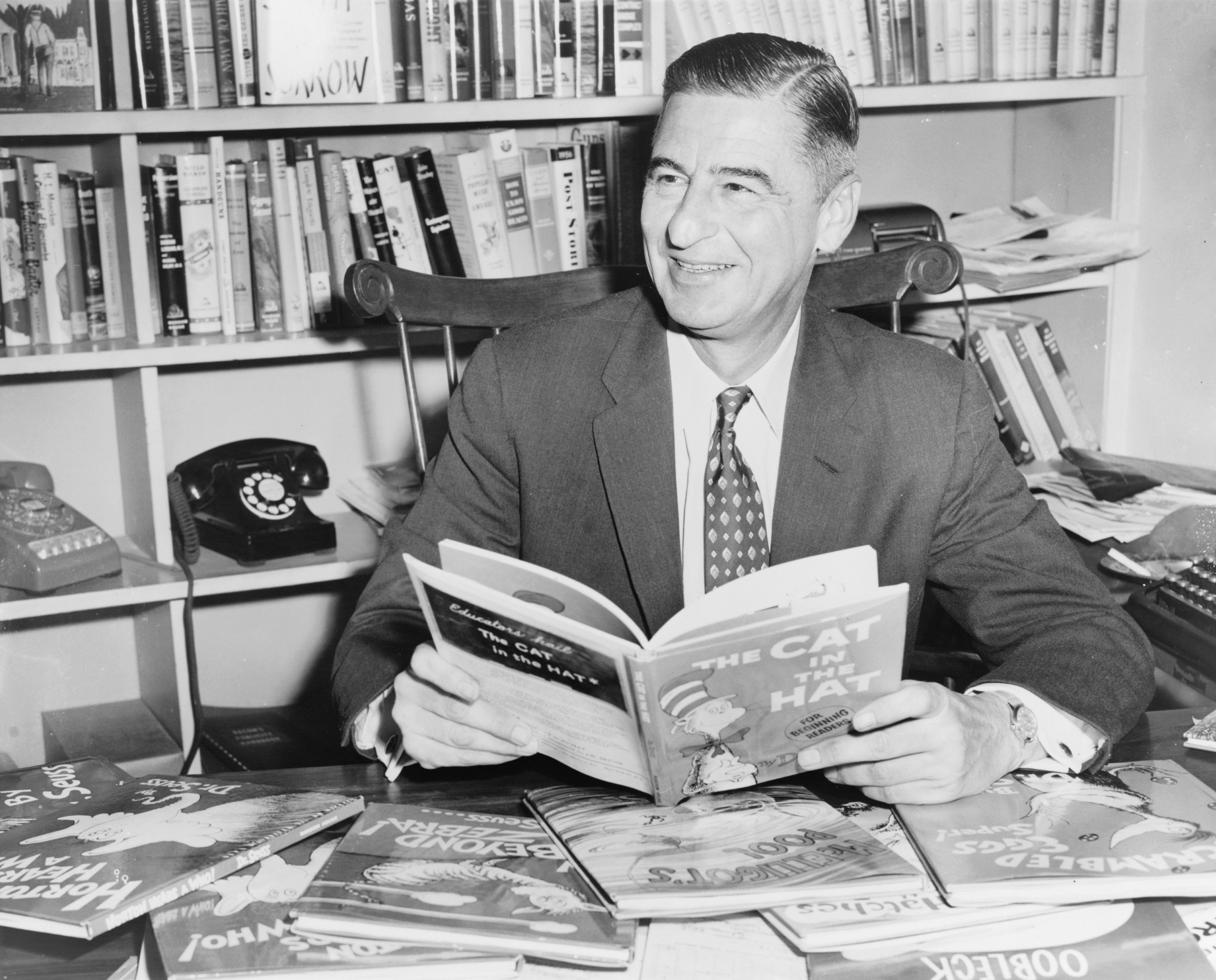 Ted Geisel (Dr. Seuss) half-length portrait, seated at desk covered with his books / World Telegram & Sun photo by Al Ravenna.